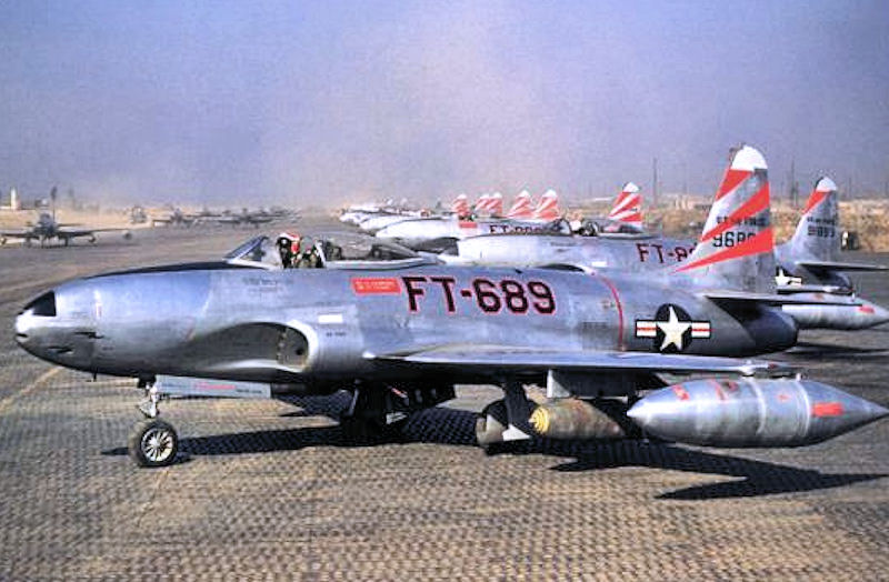 36th Fighter-Bomber Squadron Lockheed F-80C-10-LO Shooting Star 49-689, 1950, Suwon Air Base, South Korea